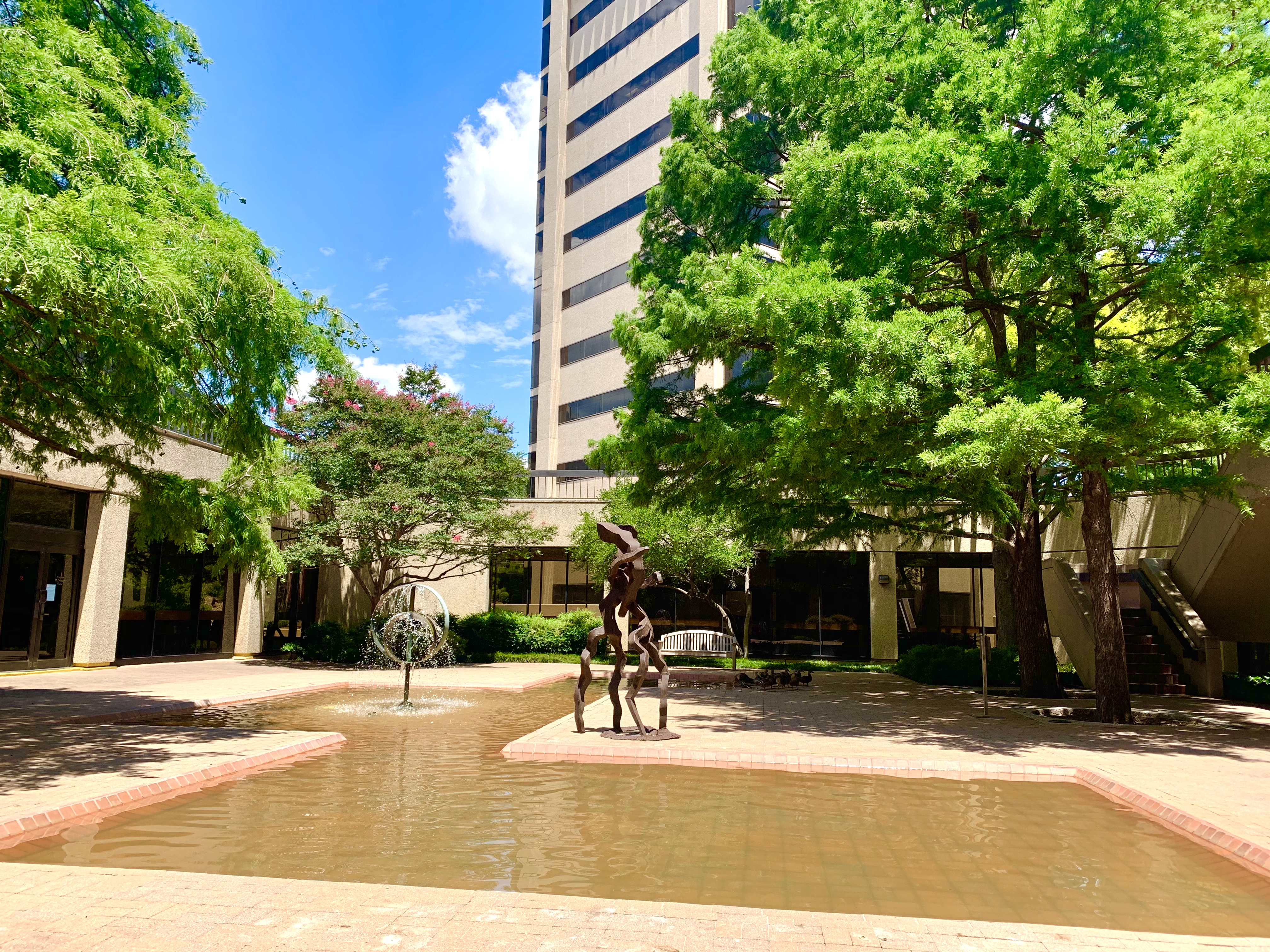 UT Southwestern Medical School